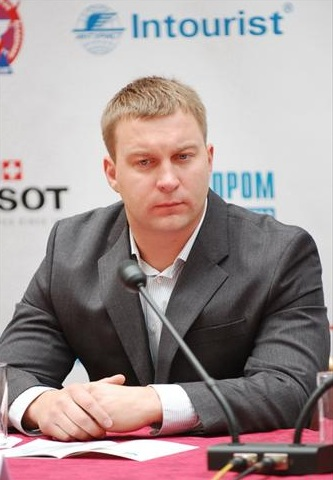 Valeriy Vasilevich Afanasiev